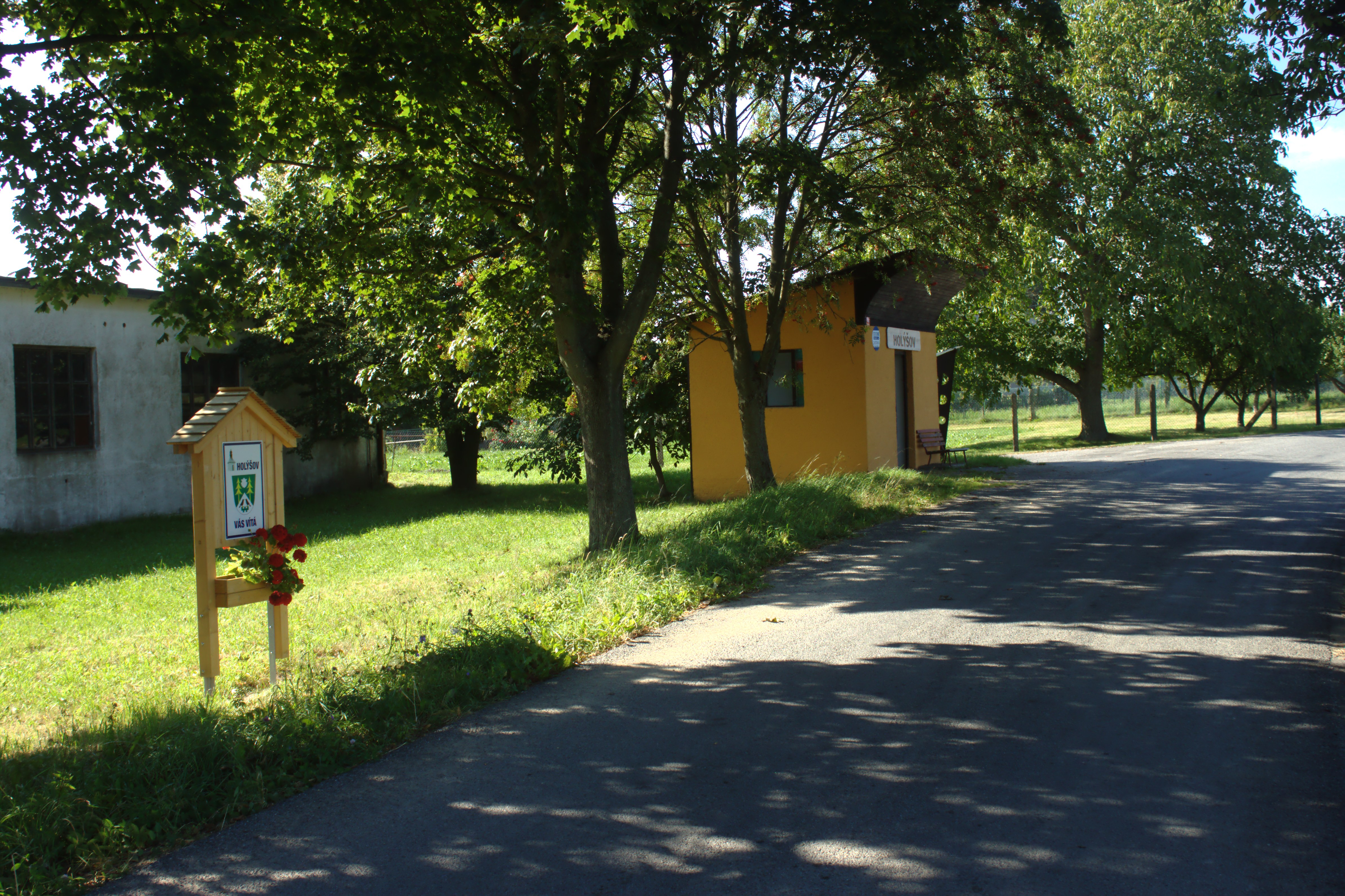 A rad to the village of Holýšov near Mezilesí, Vysočina Region, CZ